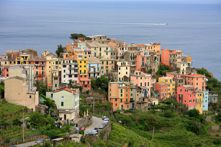 Panorama of Corniglia